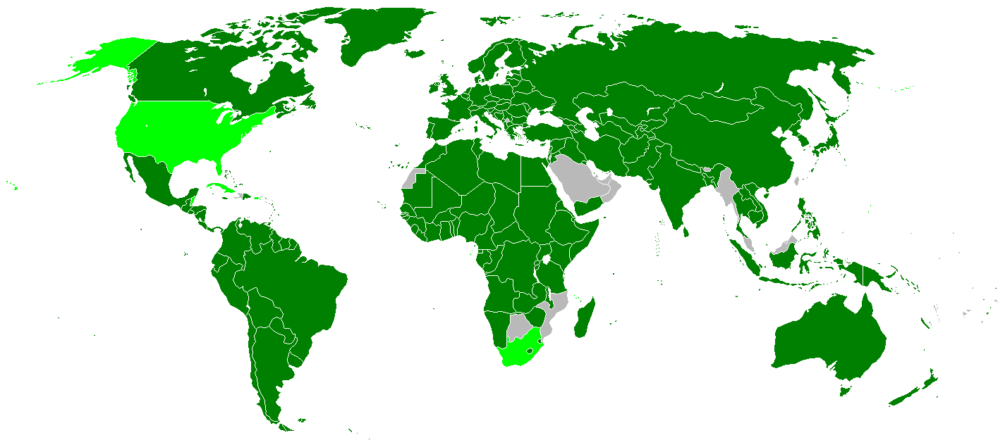 parties to the International Covenant on Economic, Social and Cultural Rights. Parties in dark green, countries which have signed but not ratified in light green, non-members in grey.